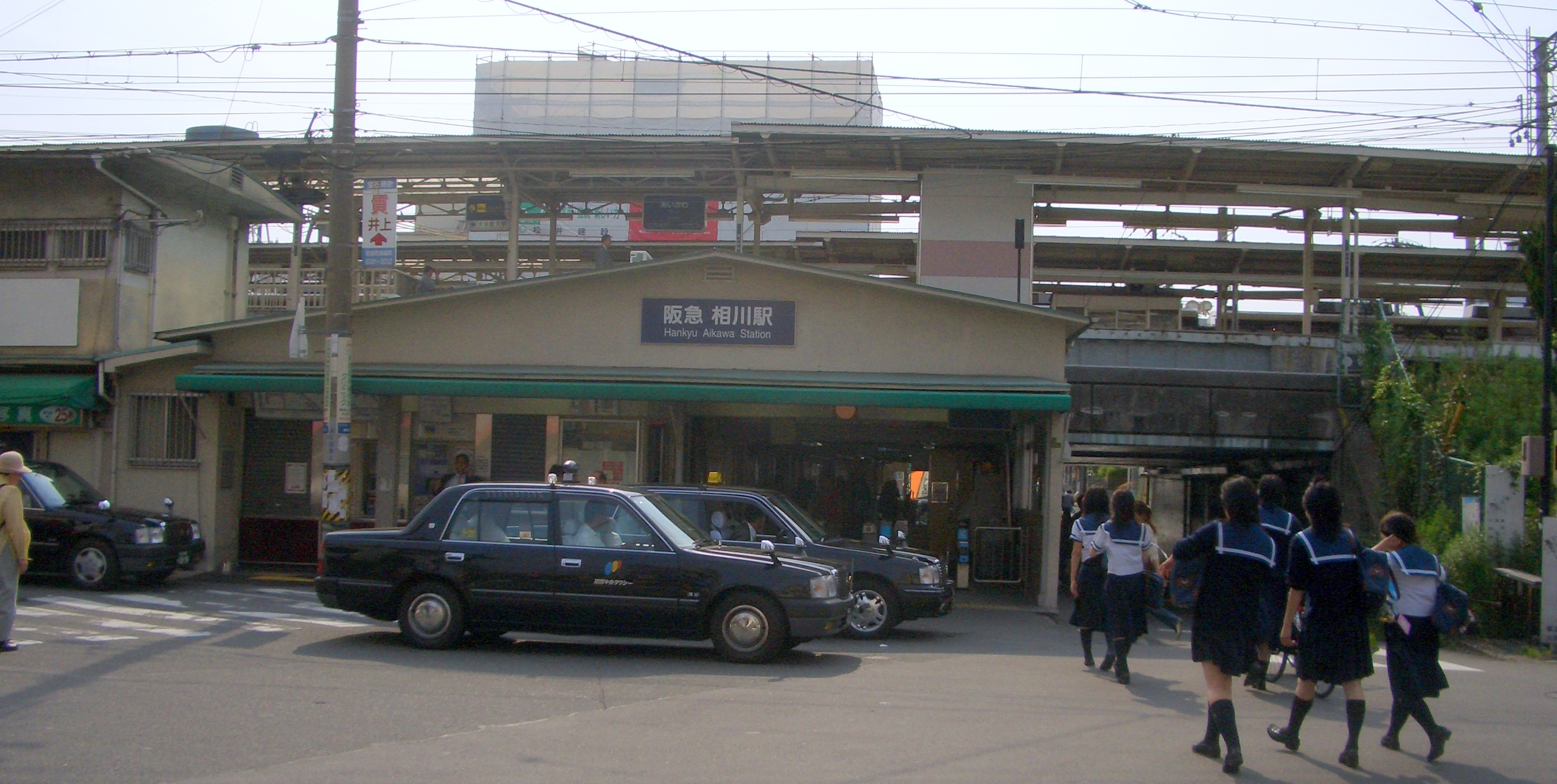 Aikawa Station on Hankyu Kyoto Main Line